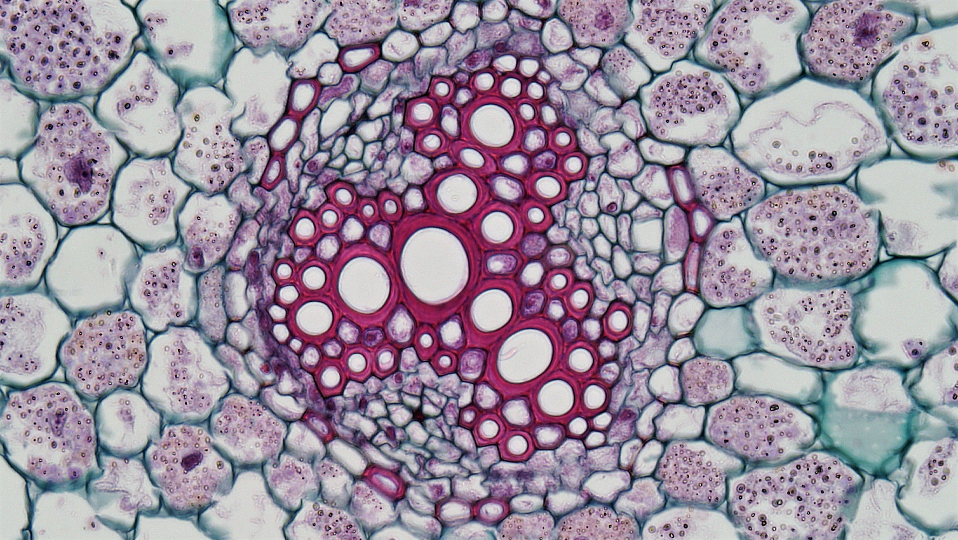 cross section: Mature Ranunculus root common name: Buttercup magnification: 400x Berkshire Community College Bioscience Image Library The cortex is well-developed and divided into two zones; a narrow outer layer of closely packed smaller parenchyma cells (exodermis) and a wide inner layer of larger open aerenchyma cells The inmost area of the cortex is bounded by an endodermis or starch sheath with larger barrel shaped cells and thickened walls that mark the red staining casparian strip. Within the endodermis occasional small passage cells serve to transport of water into the stele or vascular bundle. The stele is bound on its outmost edge by is a pericycle of single layered thin walled parenchyma cells. The closed vascular bundles are arranged radially with arms of exarch xylem interspaced with patches of phloem and parenchymous conjunctive tissue. These tissues may become sclerenchymous in older roots Vascular cambium is also absent, preventing secondary growth of the root.